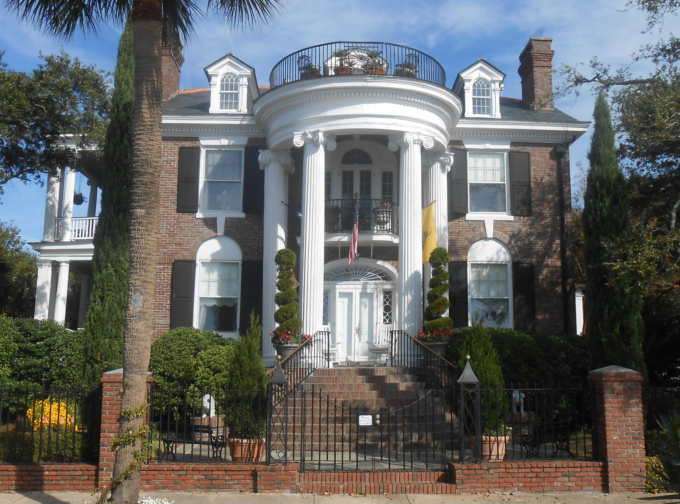 74 Murray Boulevard, Charleston, South Carolina